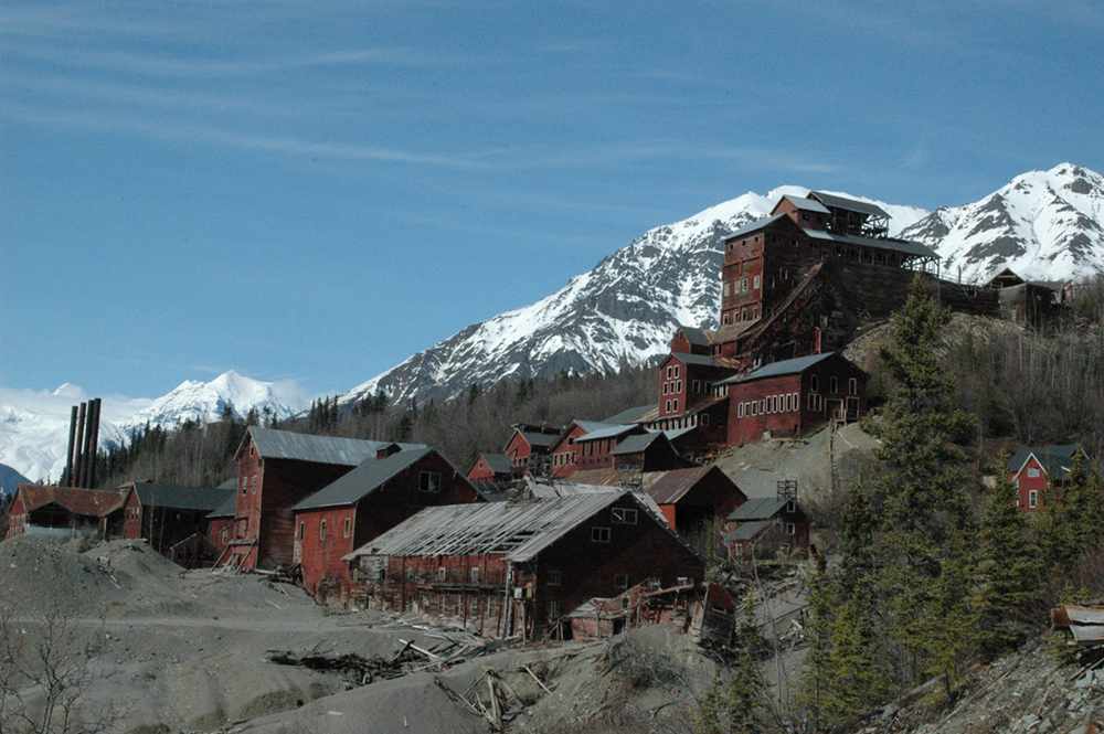 This is the Kennicott copper mine complex.